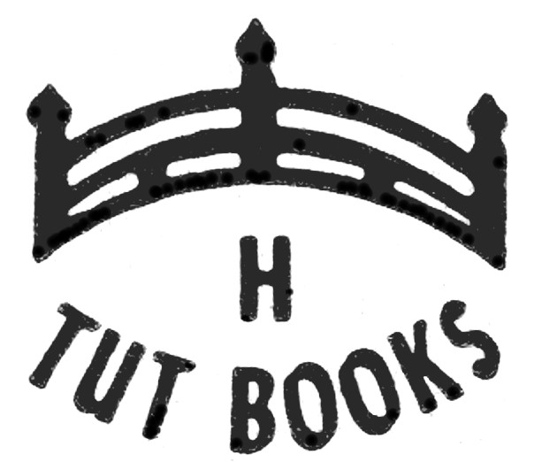 Logo of Tuttle Books